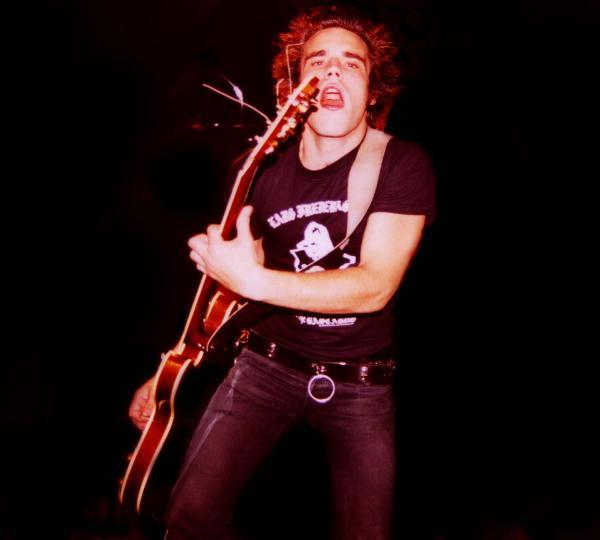 Singer in Swedish punk band Royal Stakeout.